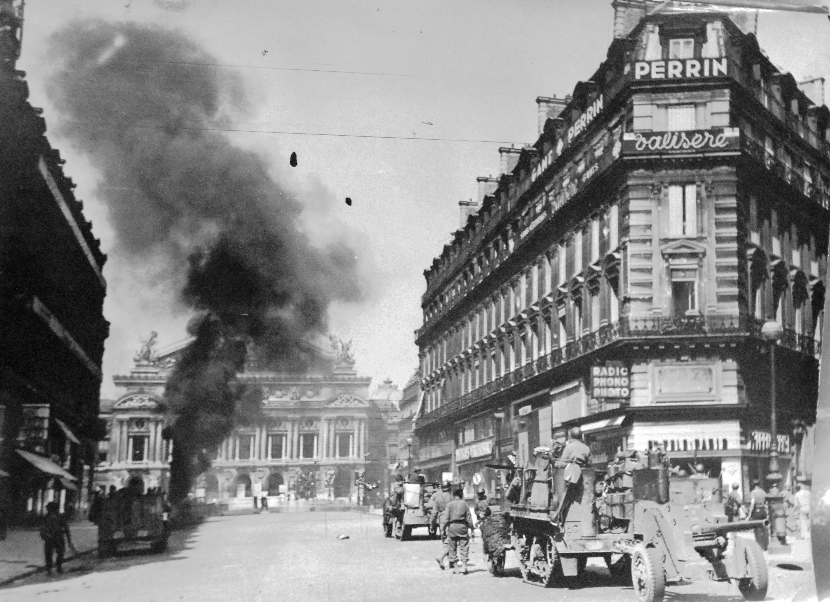 Lot 4568-2: Liberation of Paris, France, August 25, 1944. Armored vehicles of the Division Leclerc fighting before the Opera. One German tank is going up in flames. Photographed through Mylar sleeve. (7/10/2015).